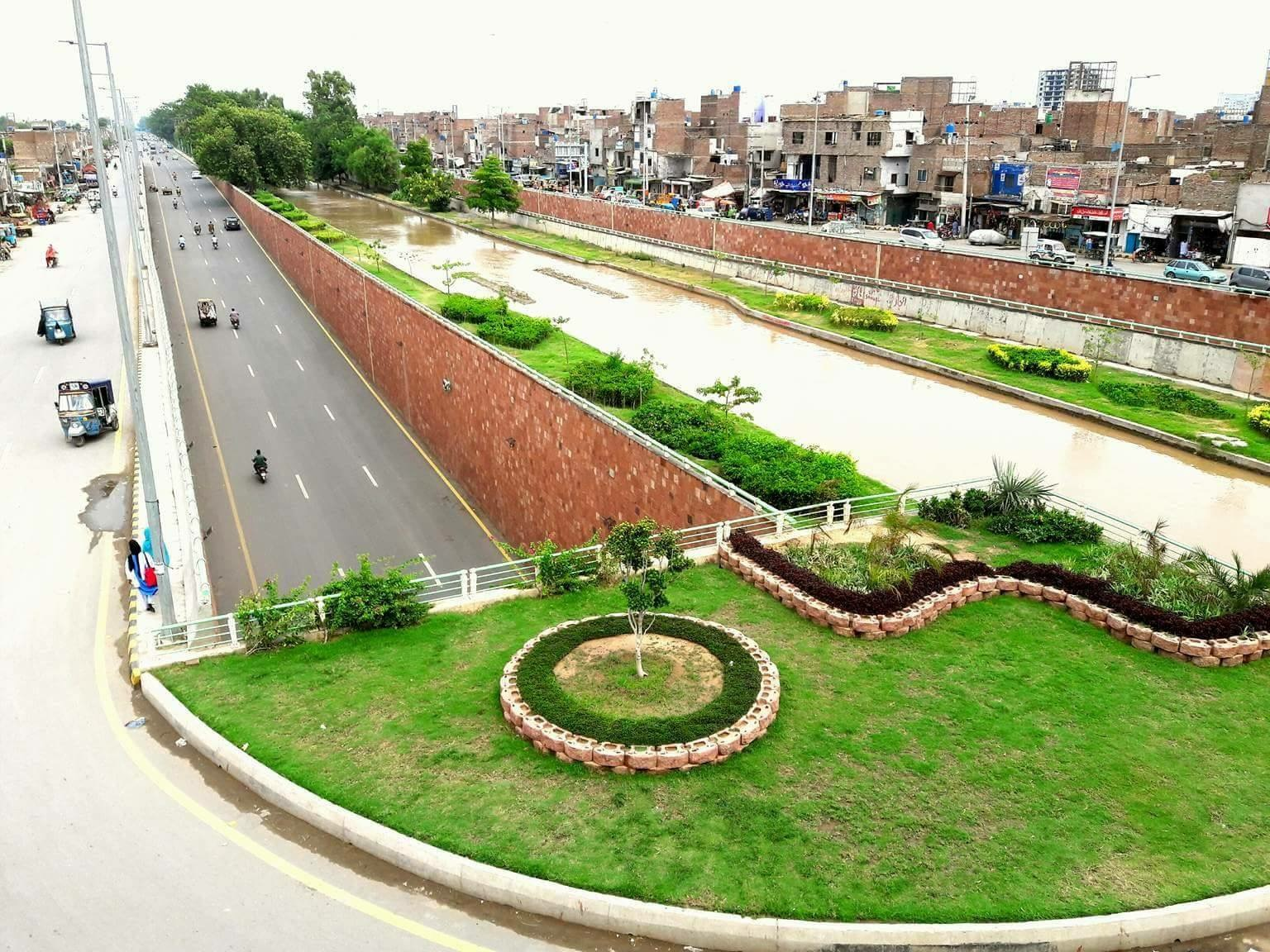 Sufi Barkat Ali Flyover and Under Pass This is a photo of a monument in Pakistan identified as the PB-25